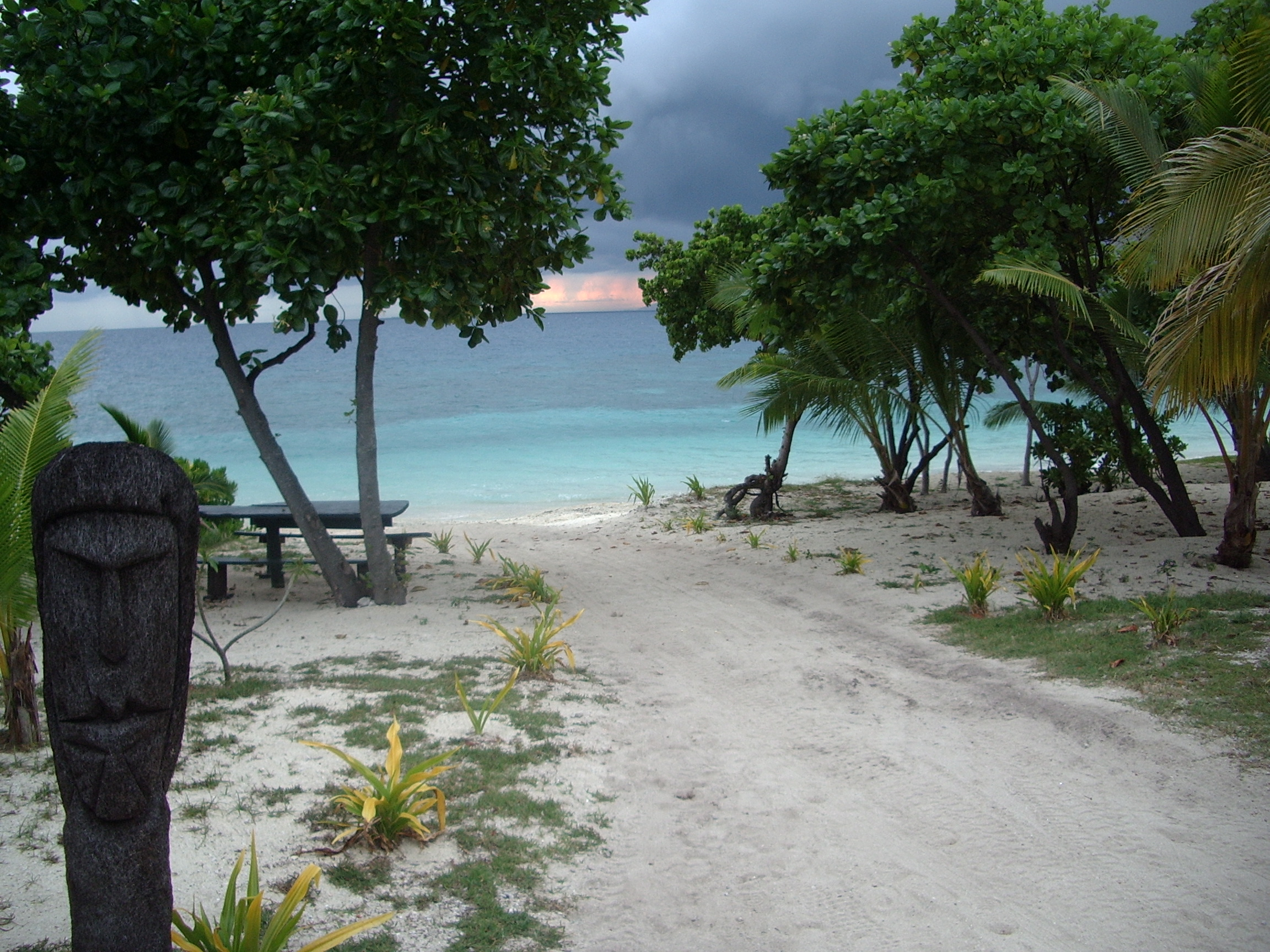 The beach of Bounty Island Resort, Mamanuca Islands, Fiji